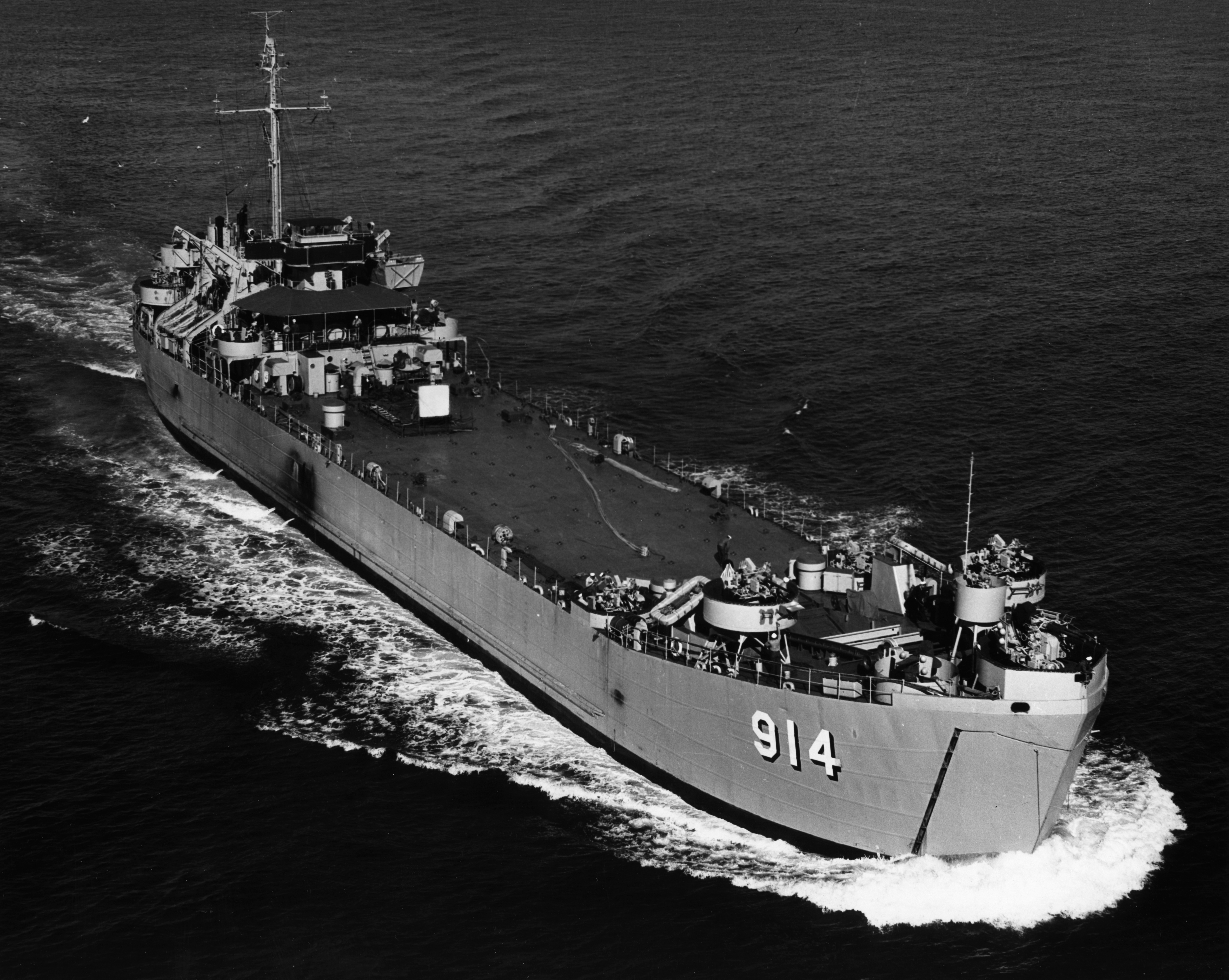 USS Mahoning County (LST-914) underway